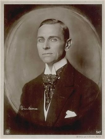 Portrait of Austrian actor Heinrich Peer (1867–1927) by Alexander Binder.